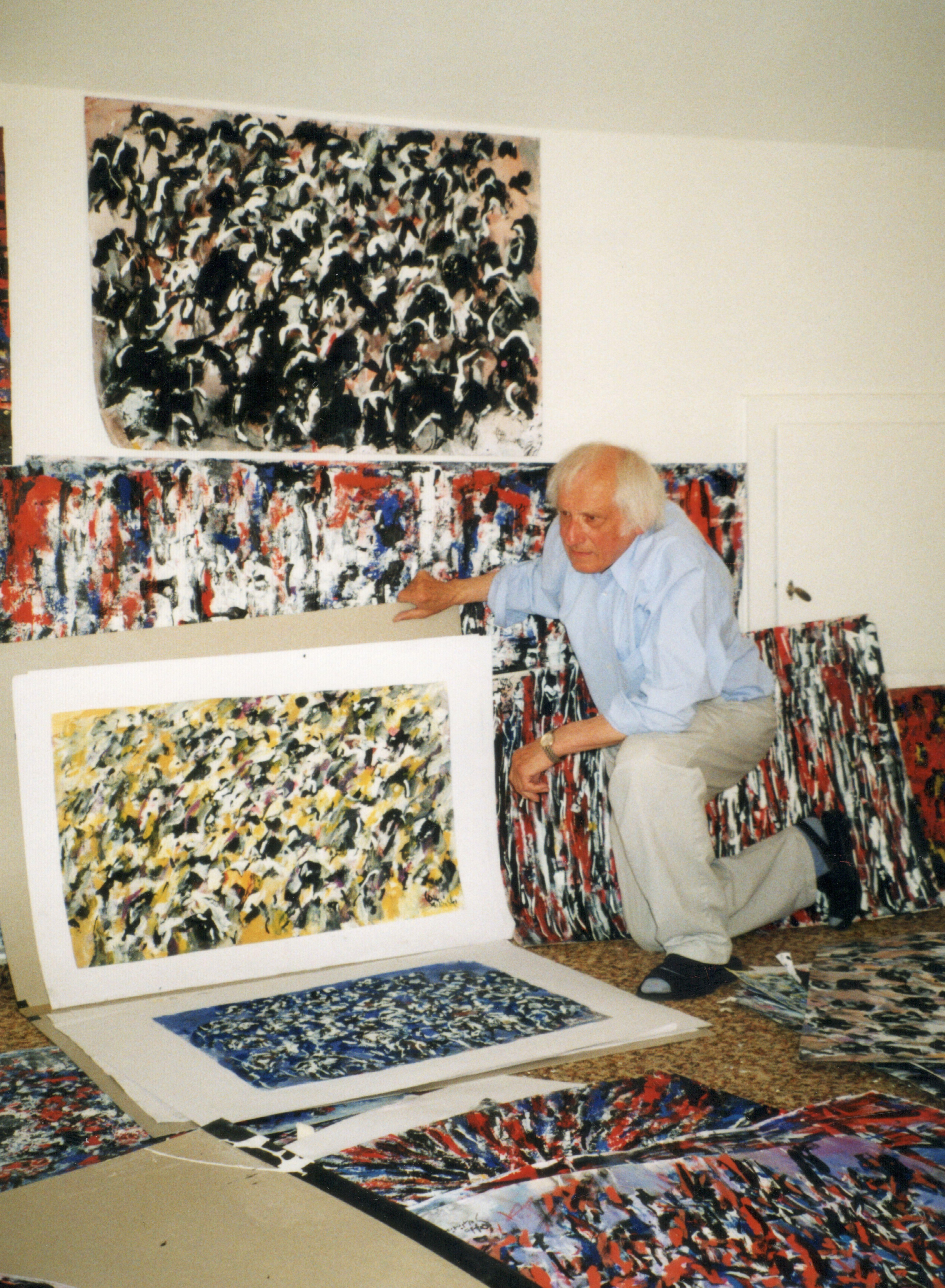 German painter Otto Schliwinski in his studio